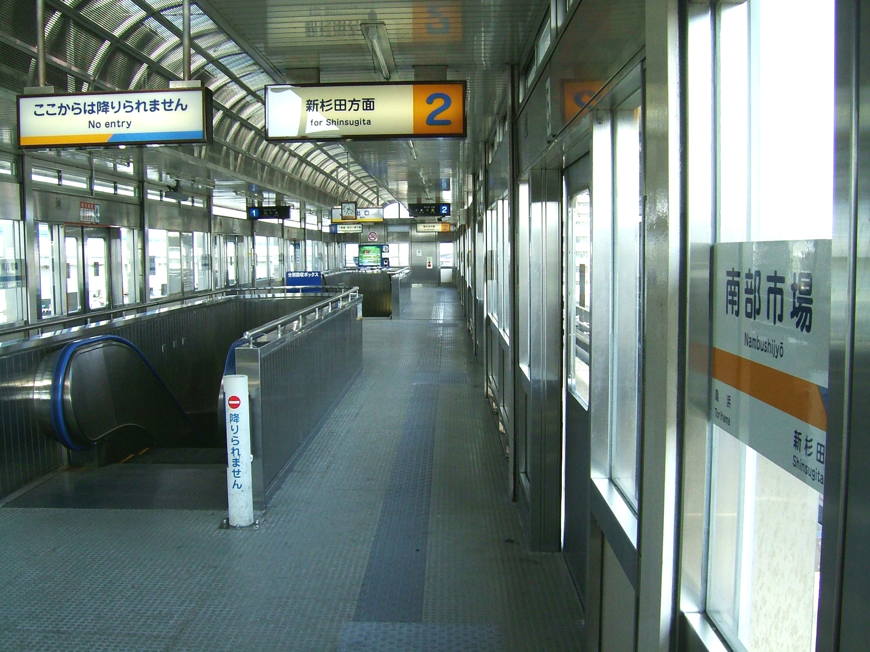 Nambu-Shijo Station platform (Kanazawa Seaside Line)